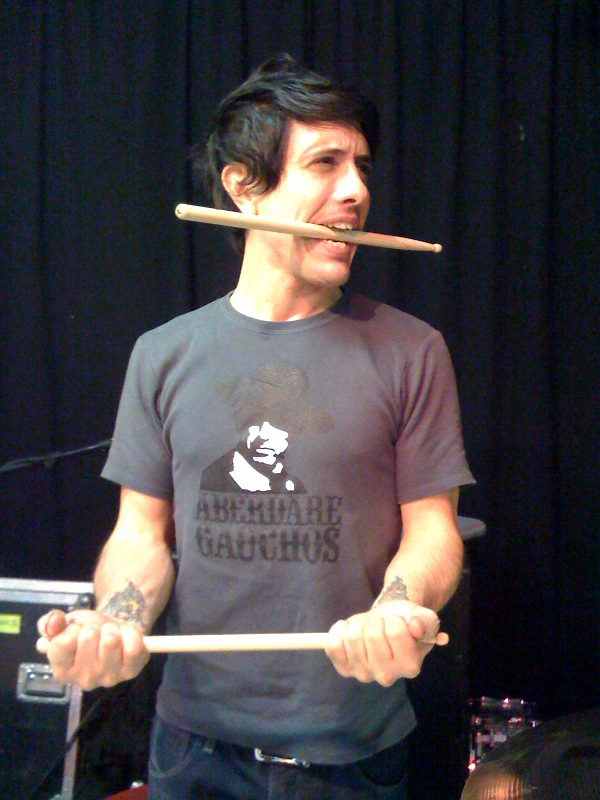 Javier Weyler during a break in rehearsals